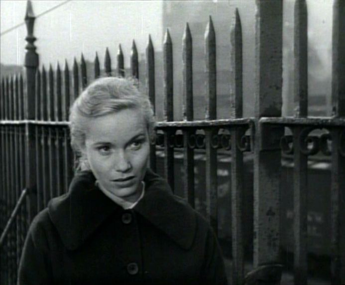 Eva Marie Saint in a screenshot from the trailer for the film On the Waterfront.